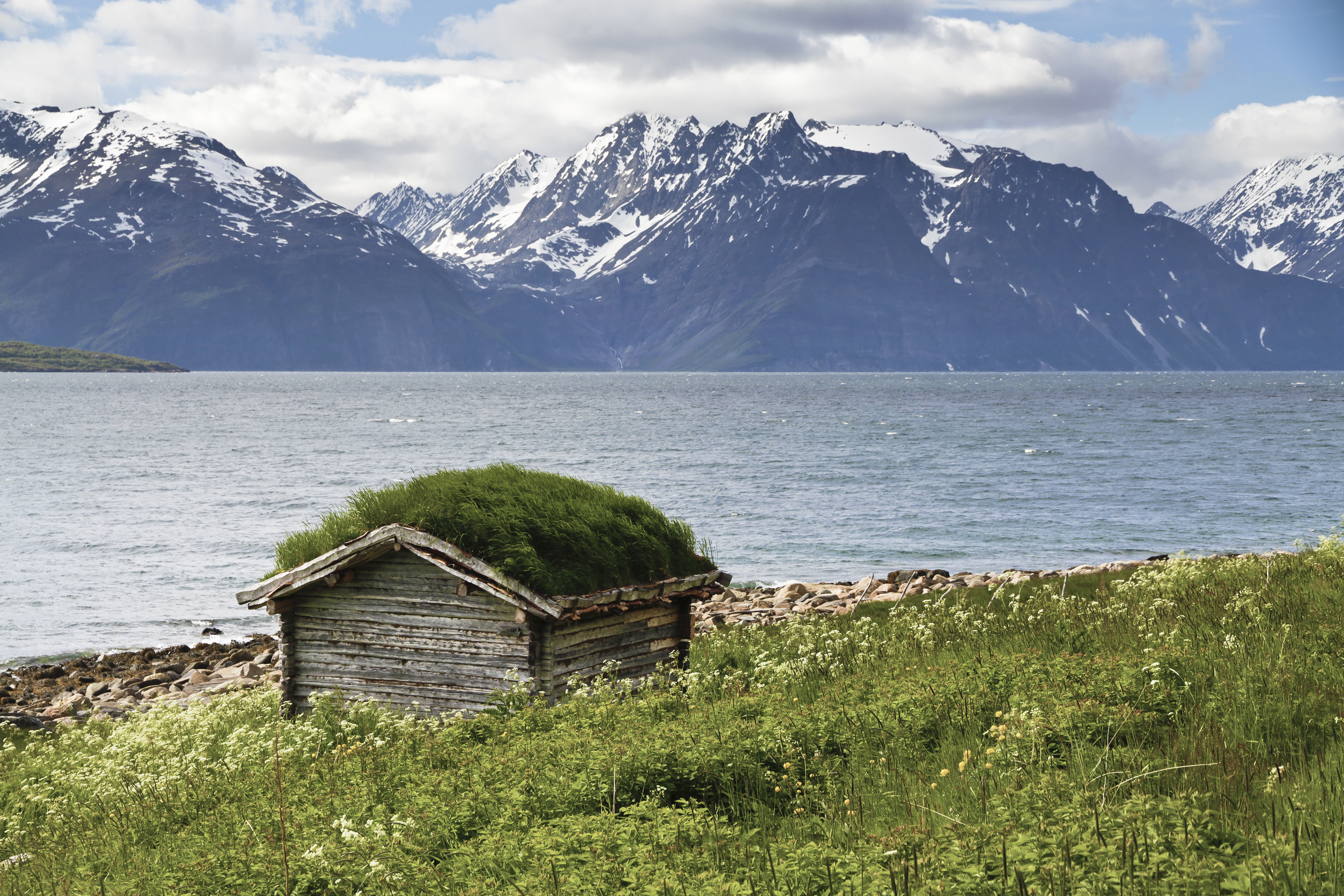 A shed with a green roof at the east coast of Lyngen fjord in Troms, Norway in 2012 June. The mountains in the background belong to Lyngen alps.